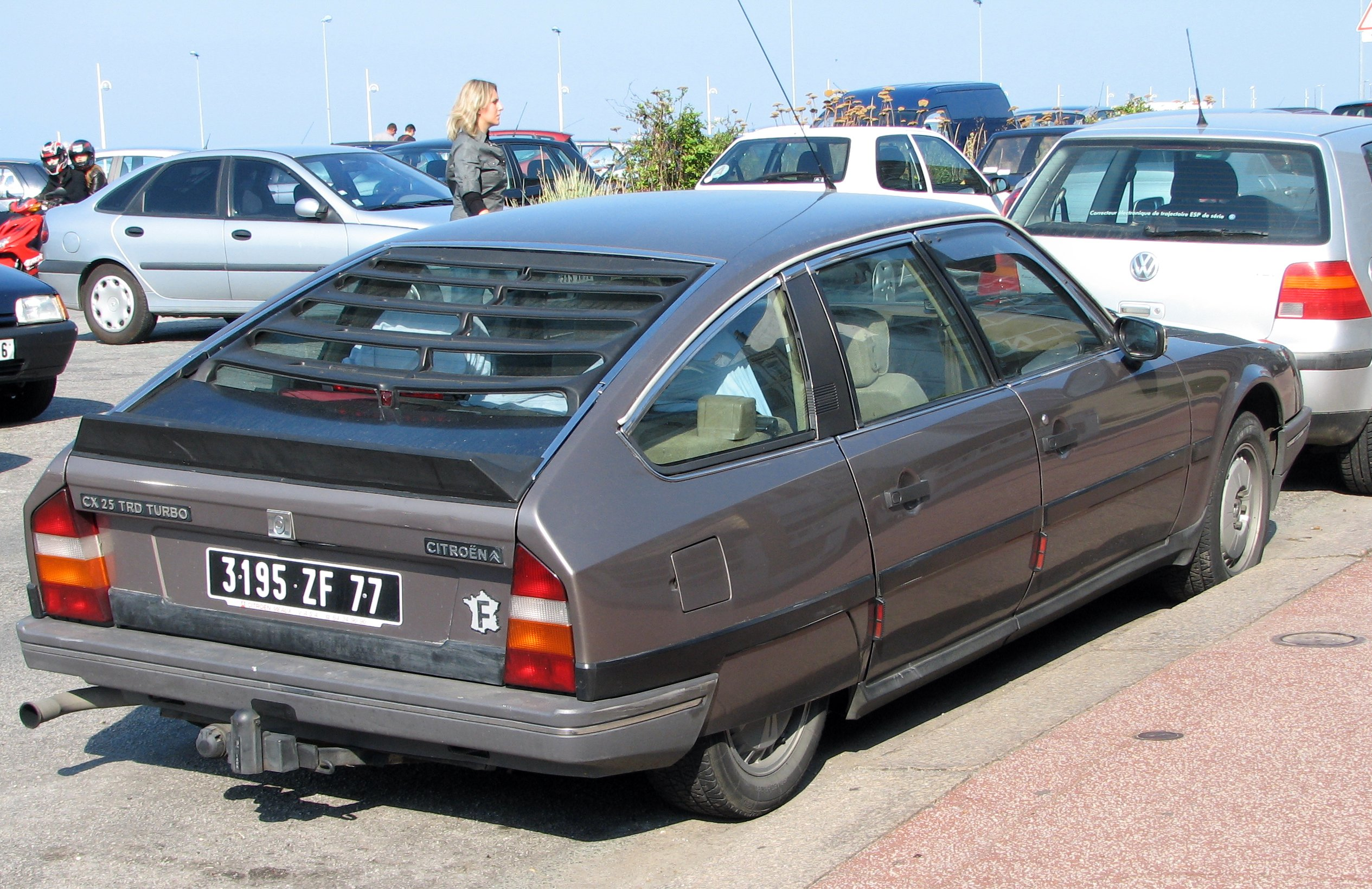 Citroën CX 25 TRD TURBO - Phase II